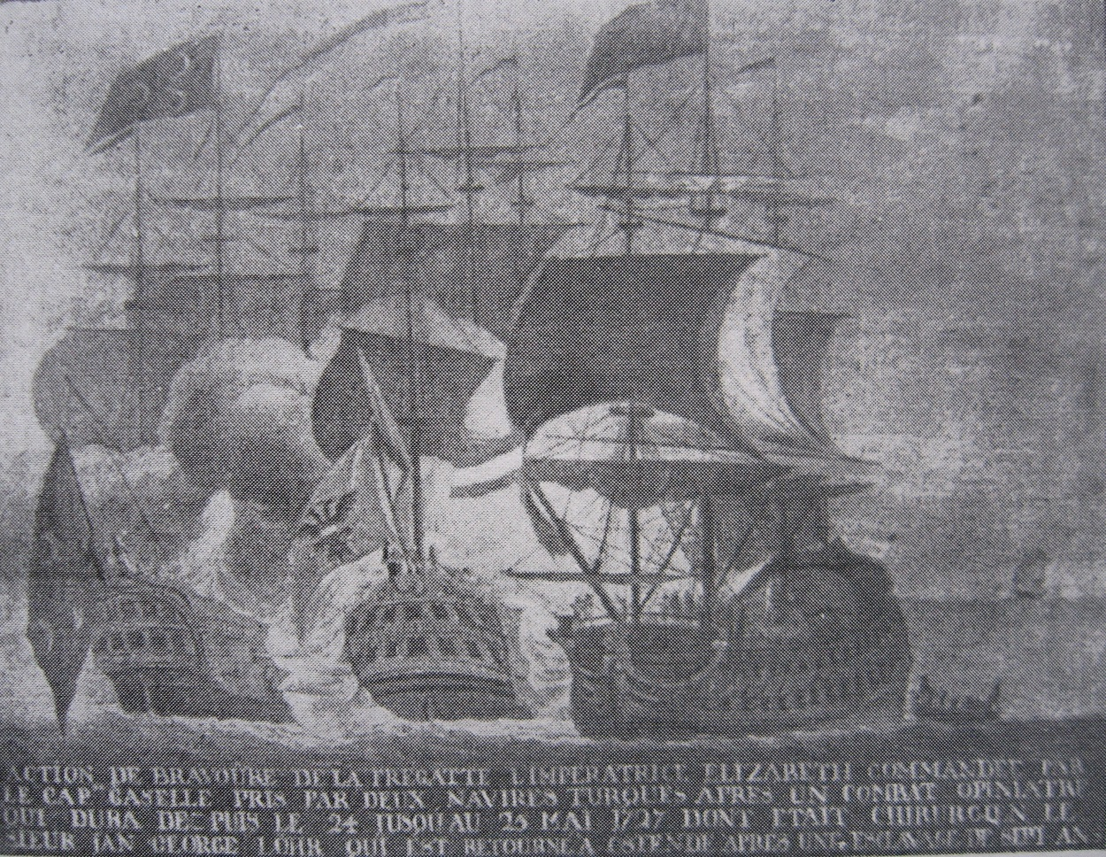 Painting showing the Ostend Company ship the Impératrice Élisabeth (flying the Austrian imperial flag) being attacked by Barbary Coast corsairs in 1724 (the legend under the painting says 1727). The Algier-based pirates attacked and captured the Impératrice Élisabeth in the Atlantic on its return trip from Moka (Yemen). Anonymous painting from c.1730-1740.